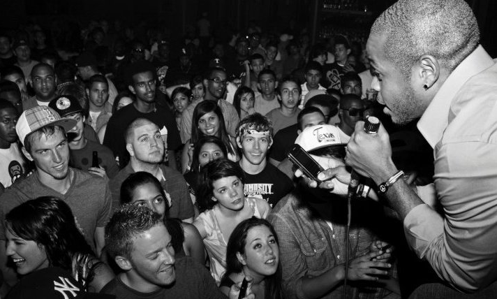 Drastik during a performance at Republic Live